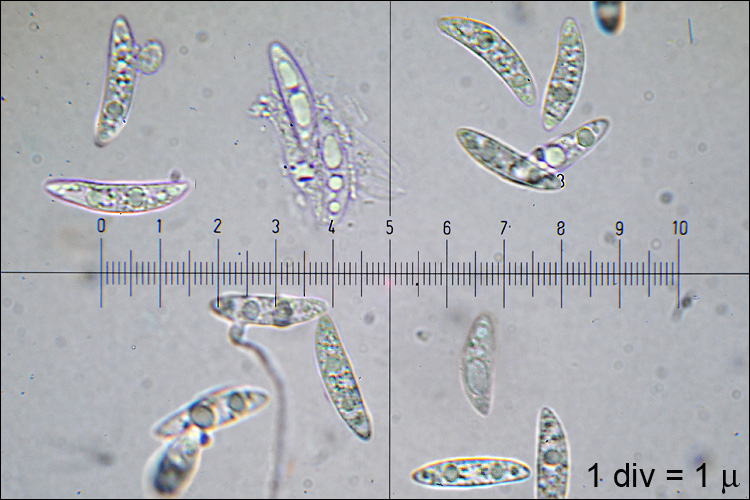 The spores of the ascomycetous fungus Ascoryne sarcoides (Jacq.)J.W. Groves & D.E. Wilson. Spores obtained from a specimen collected in West of Bovec, East Julian Alps, Posočje, Slovenia. "Notes: Motic B1-211A, magnification 1.000 x, oil, in water."